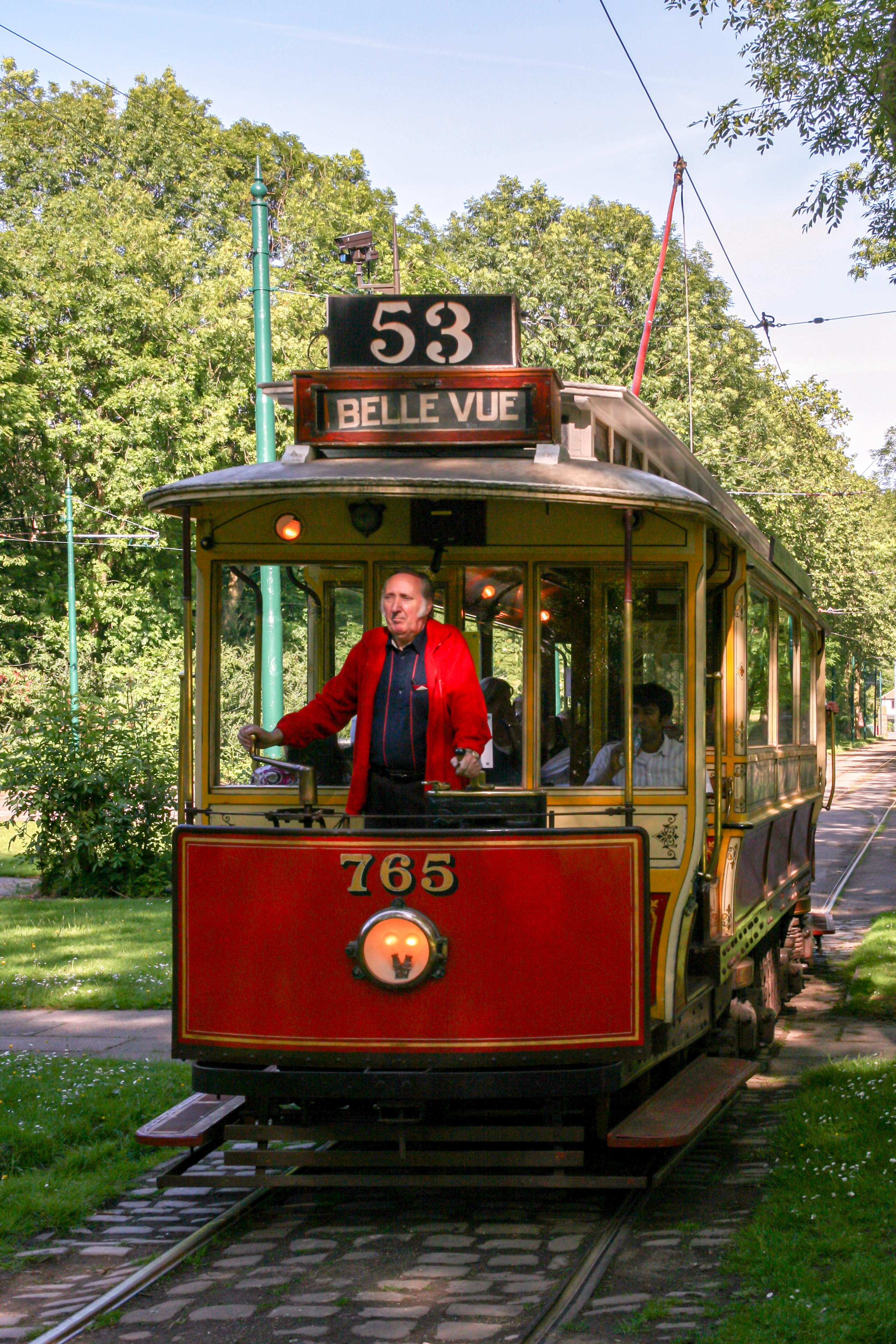 Tram 765, formerly route 53, Belle Vue, in Heaton Park, Manchester